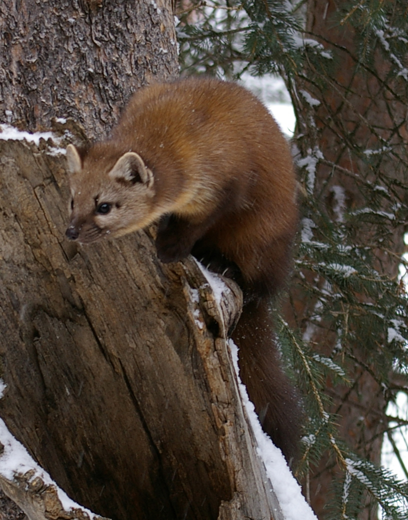 Martes americana, Yellowstone NP.